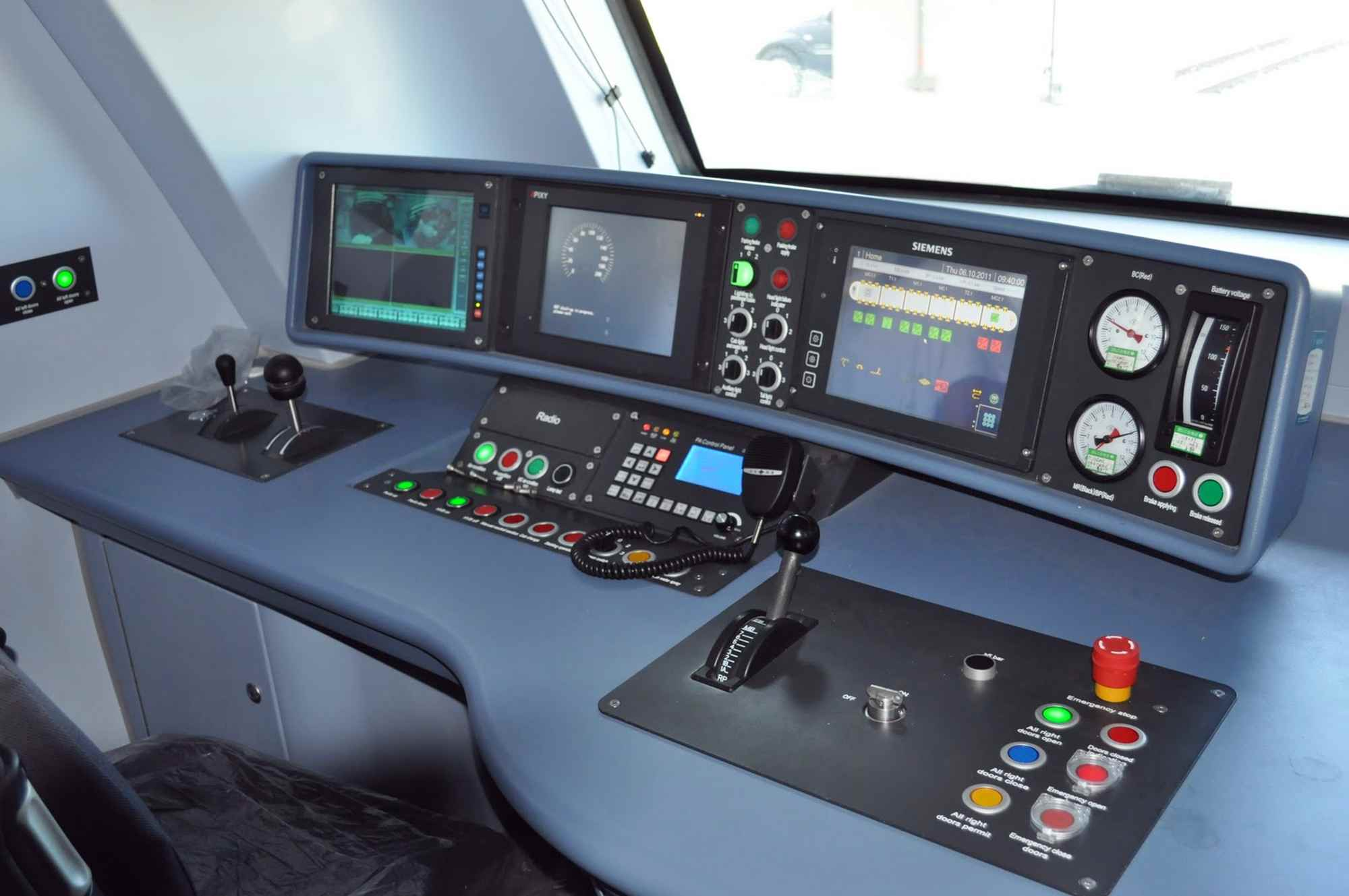 KTM Class 92 Cockpit console siemens control cab